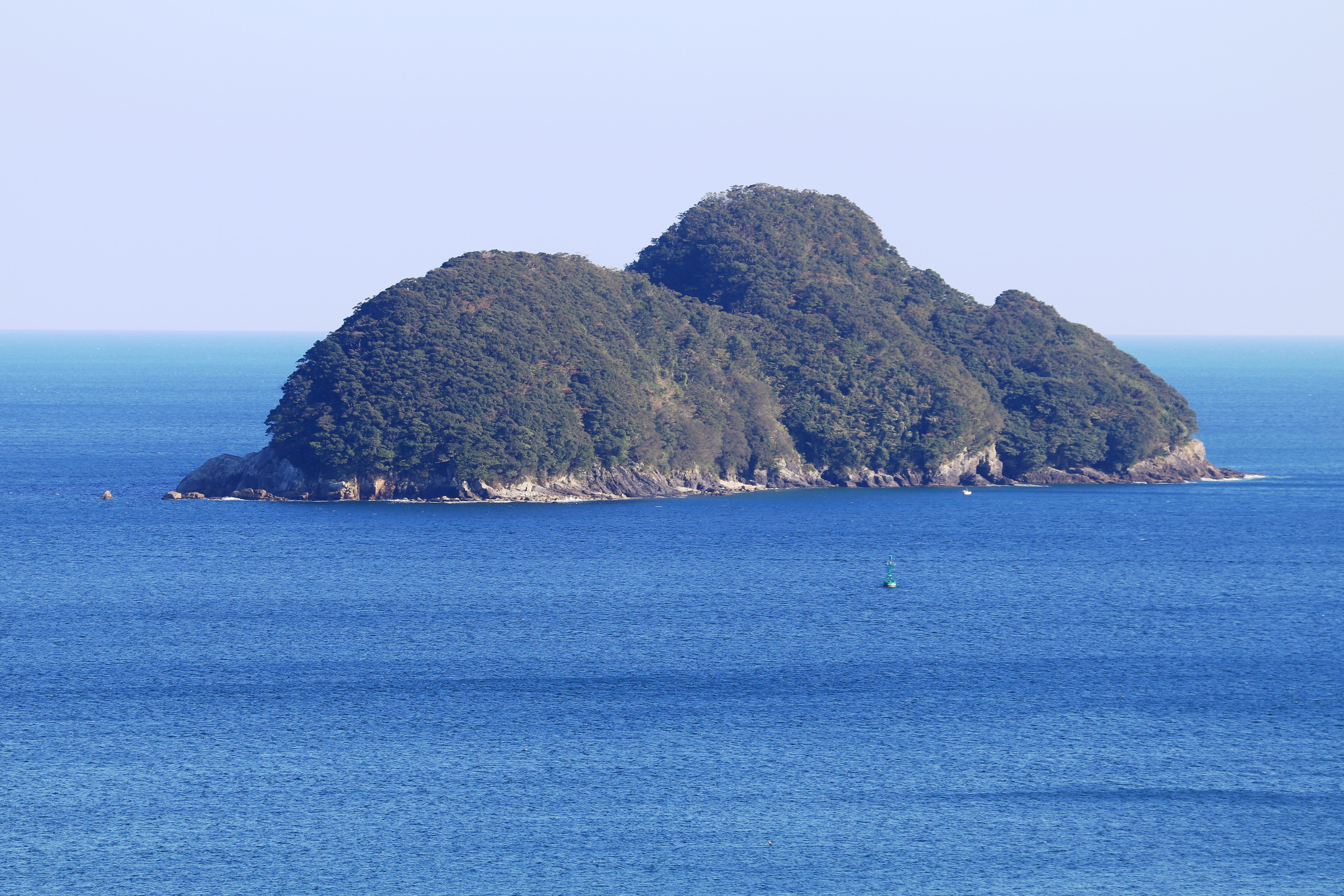 Sabaru Island in Owase, Mie Prefecture, Japan.